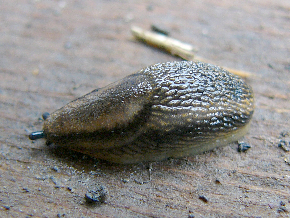 Arion distinctus Locality: Czech Republic, Moravia, Olomouc - Bělidla, garden, 17 October 2004